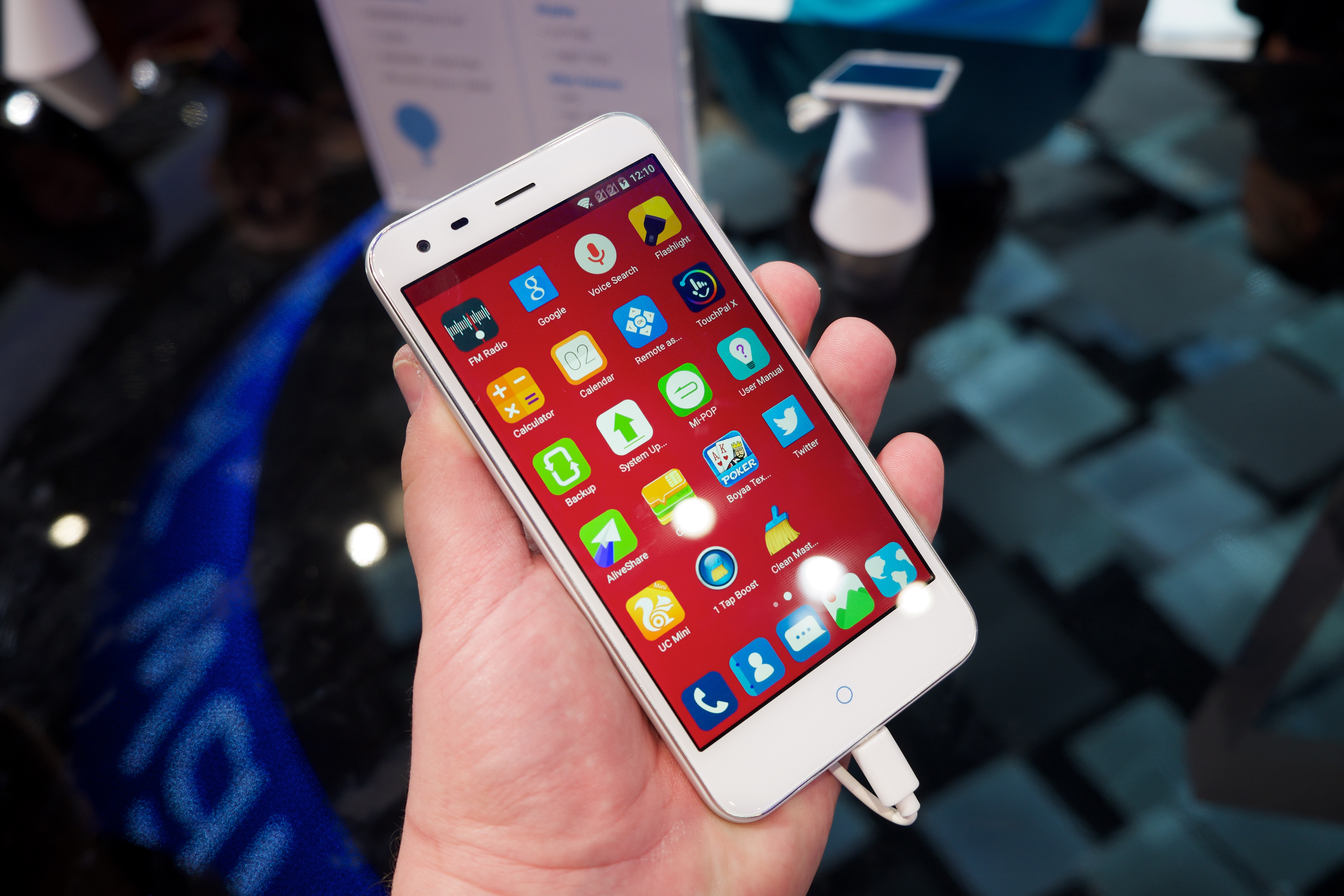 ZTE Blade S6 Plus at Mobile World Congress 2015 Barcelona